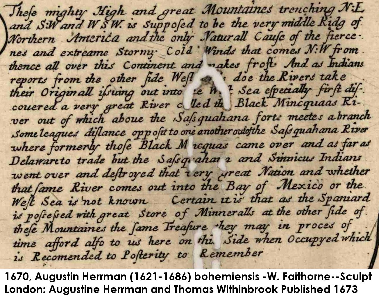 Clip of text from Virginia & Maryland 1670 map. Print located between the headwaters of the Potomac & South Branch rivers on the face of the map.